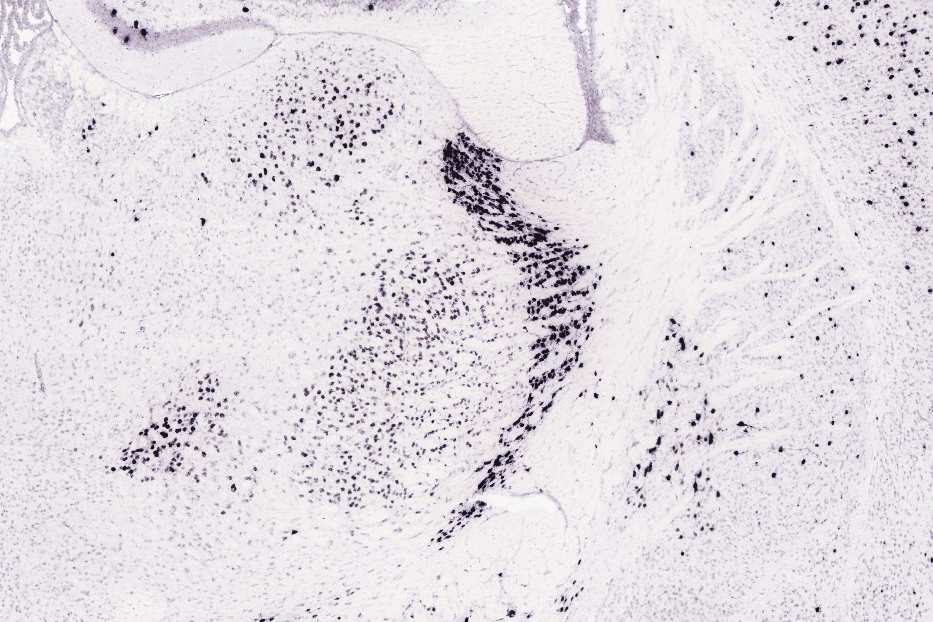 ISH staining of Parvalbumin in the P56 mouse reticular thalamus